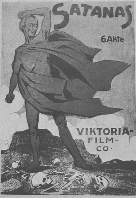 Promotional poster of Murnau´s film "Satanas"